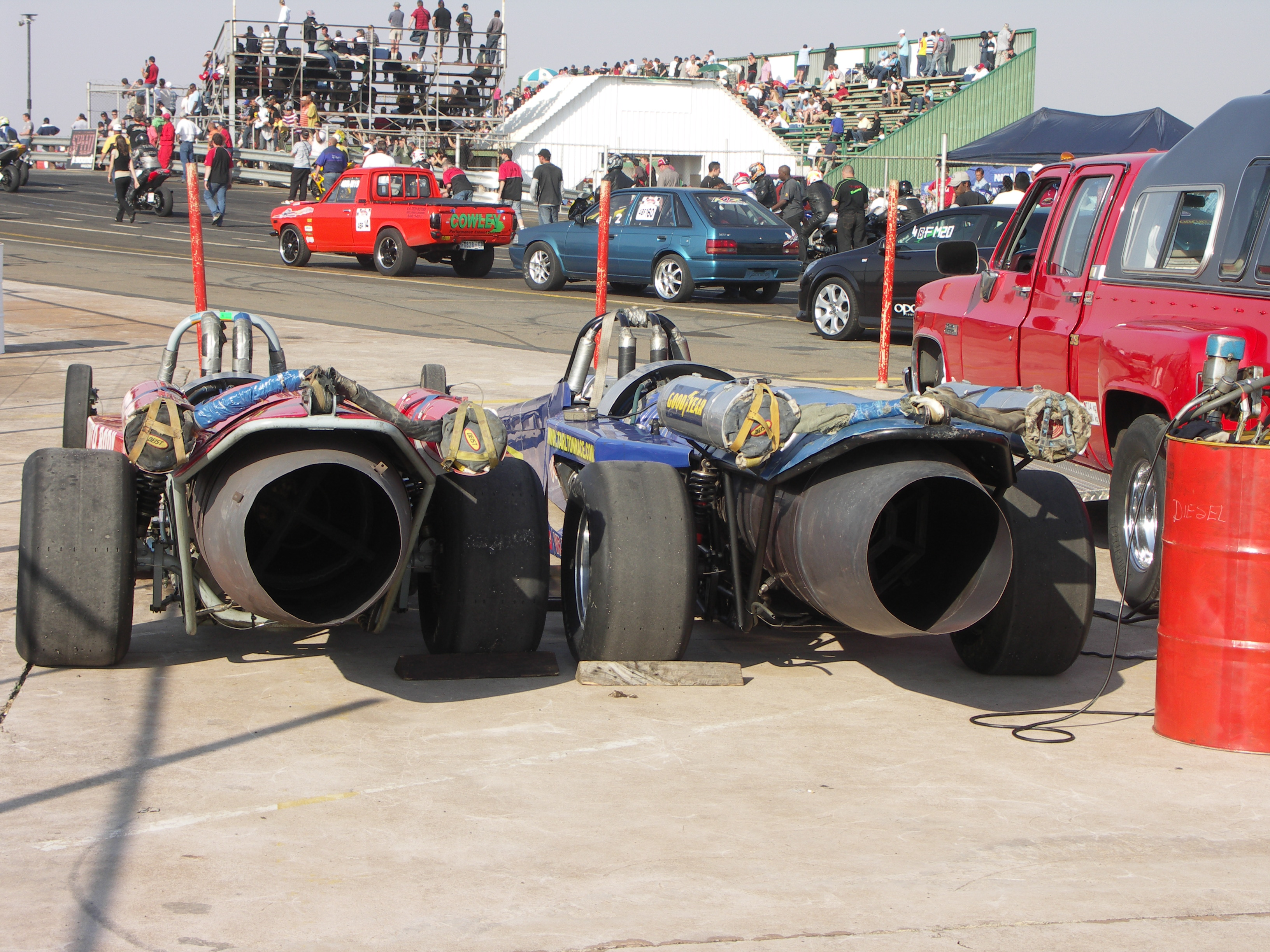 Two jet dragsters Tarlton, South Africa